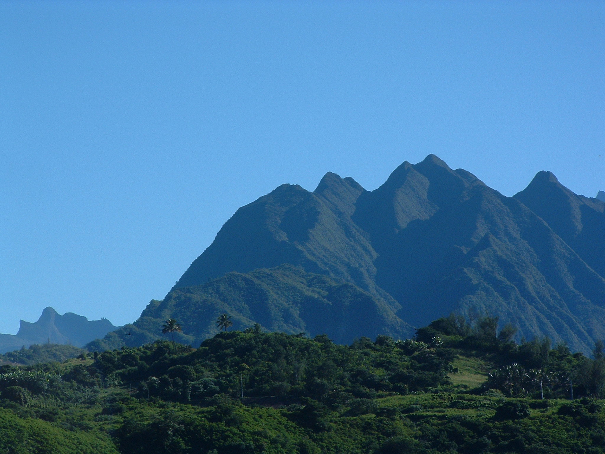 The outer rim of the clover-leaf-like caldera of Piton des neiges, La Réunion's earlier and now extinct volcano